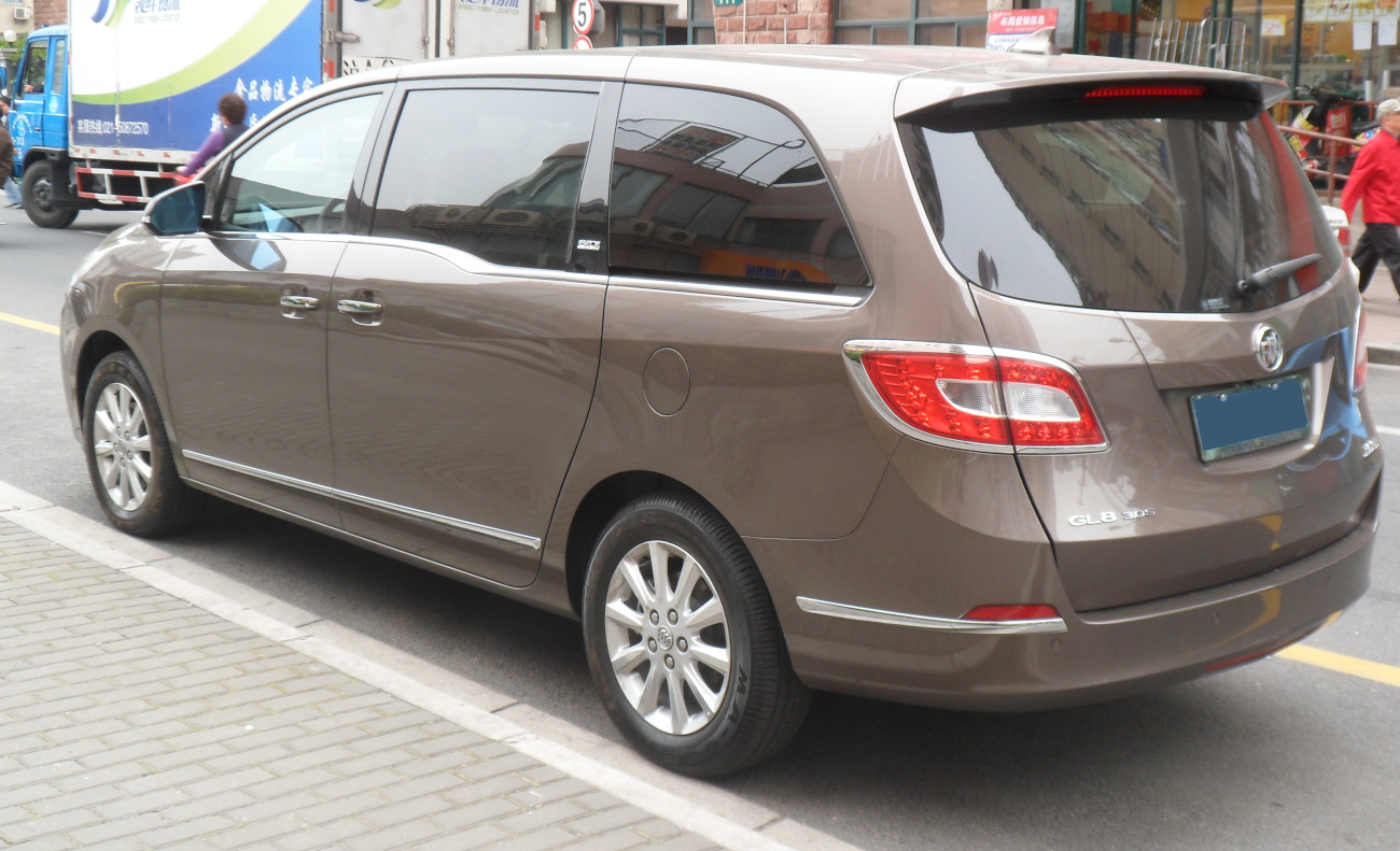 Buick GL8 II photographed in Shanghai, China.